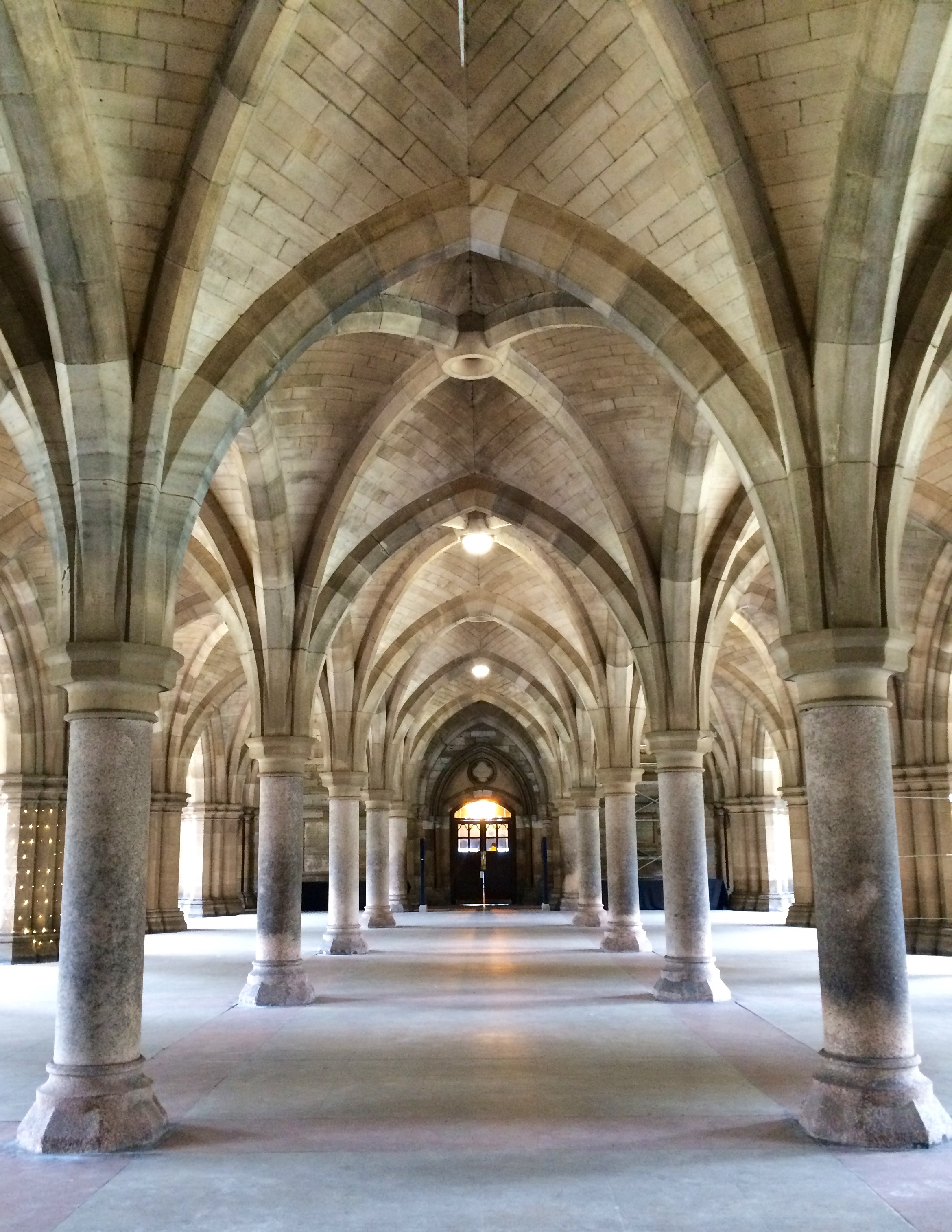 University Avenue, University Of Glasgow, Bute Hall Wikidata has entry Q17567981 with data related to this item.